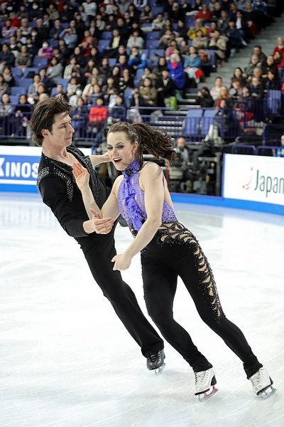 Tessa Virtue and Scott Moir at the 2017 World Championships